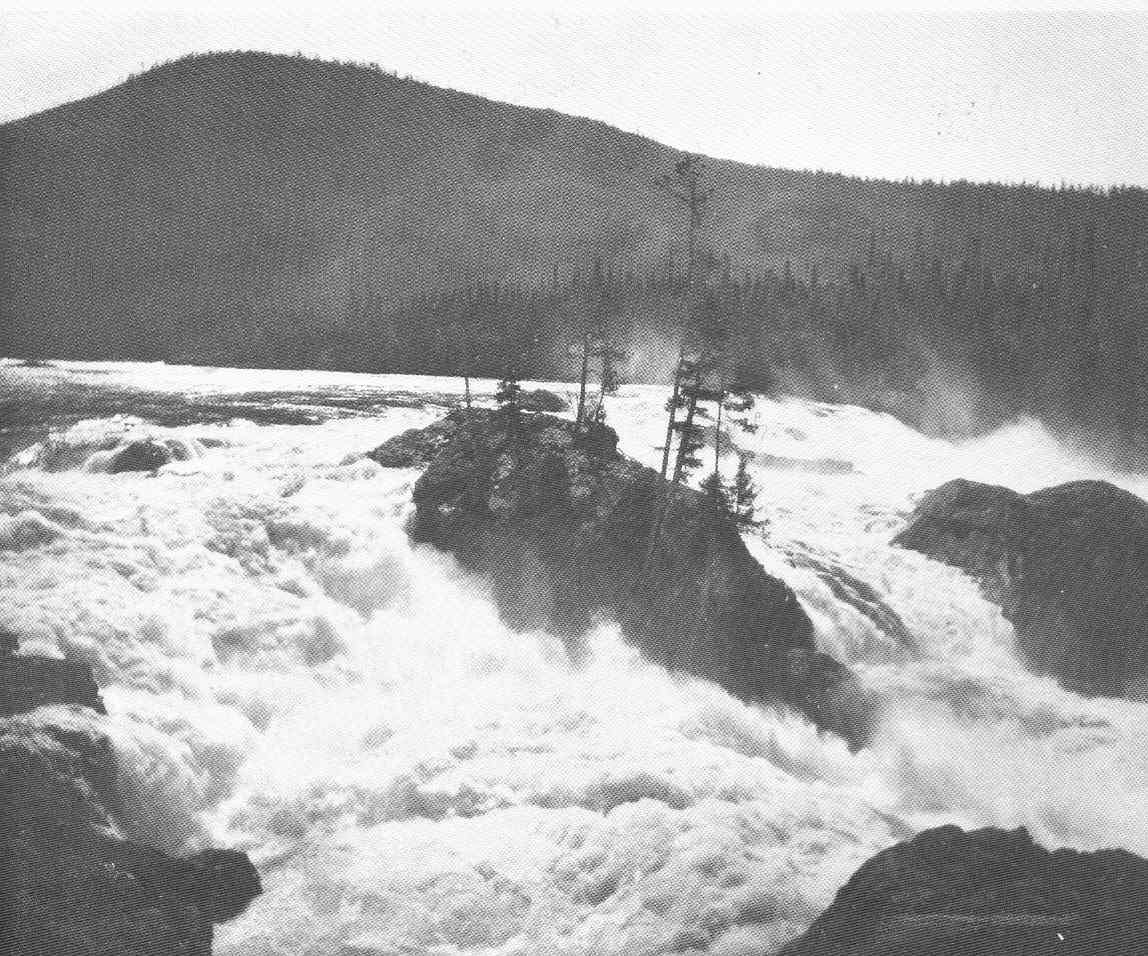 Head of the great falls in the Kootenay River . "The Kootenay is one of the best trout streams in the West." Subject: Kootenai River Geographic Subject: Canada--British Columbia--Kootenai River Tag: Limnology